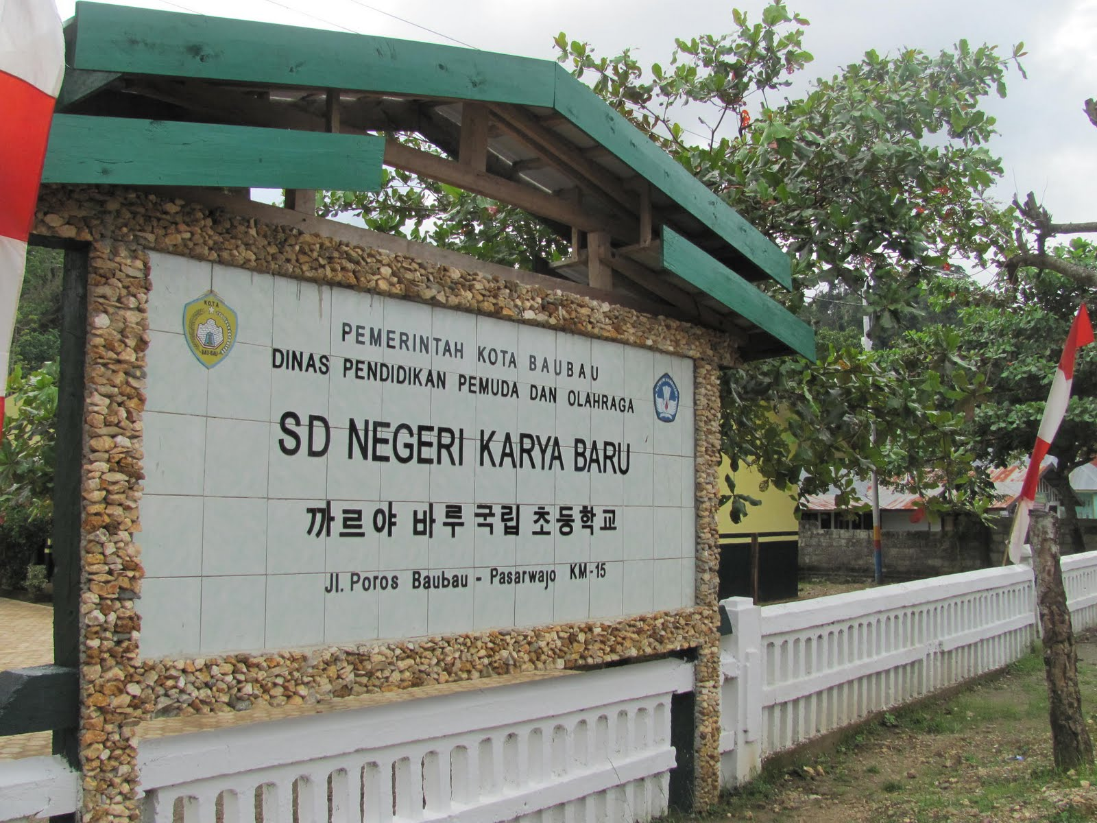 A sign name of State Elementary School in City of Baubau with the name written in Indonesian (SD Negeri Karya Baru) and in Korean (까르야 바루 국립 초등학교).